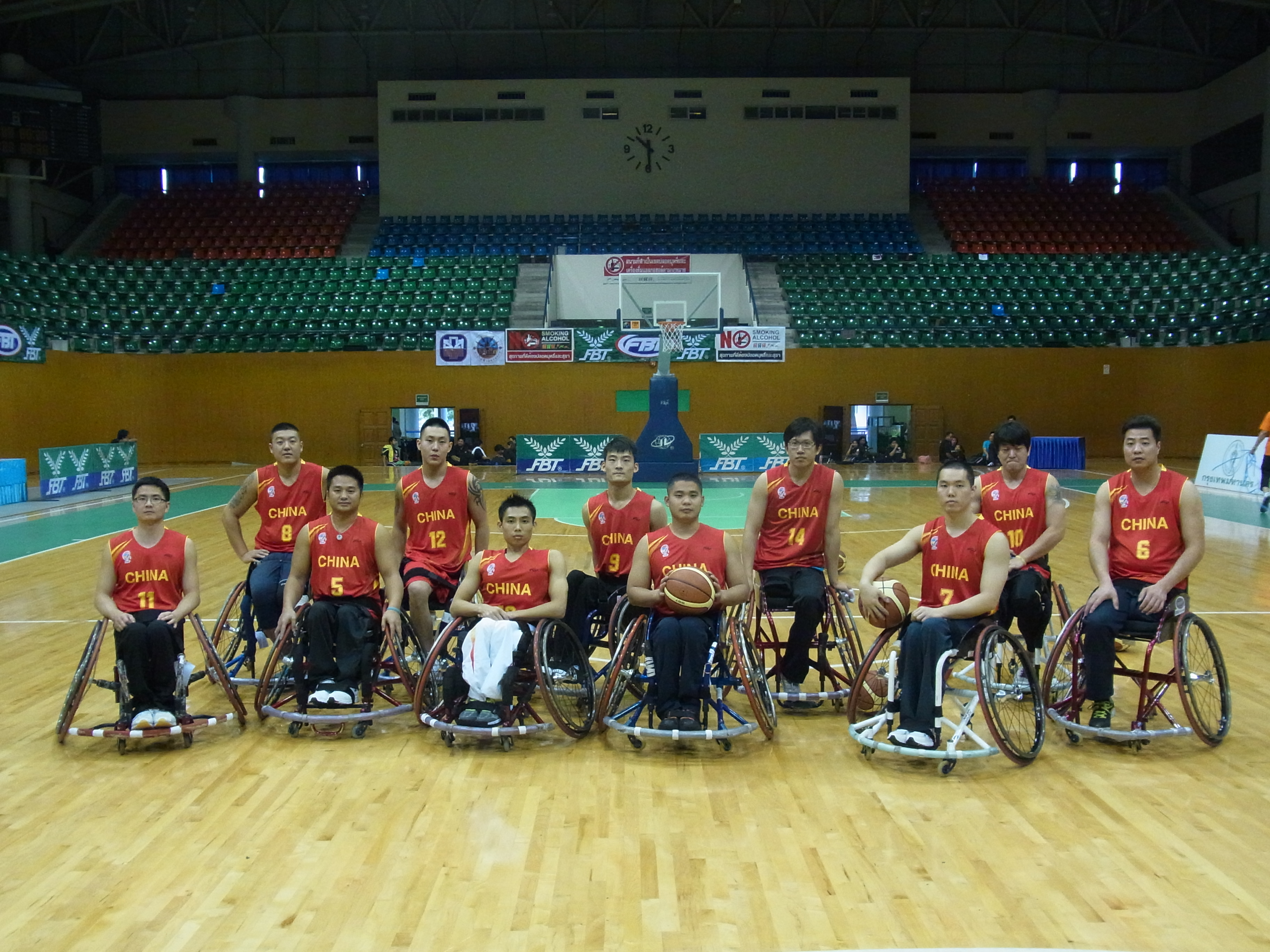 China mens wheelchair basketball team 2013